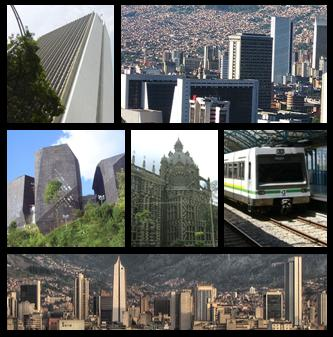 Collage of Medellin city, Colombia´s second largest city.